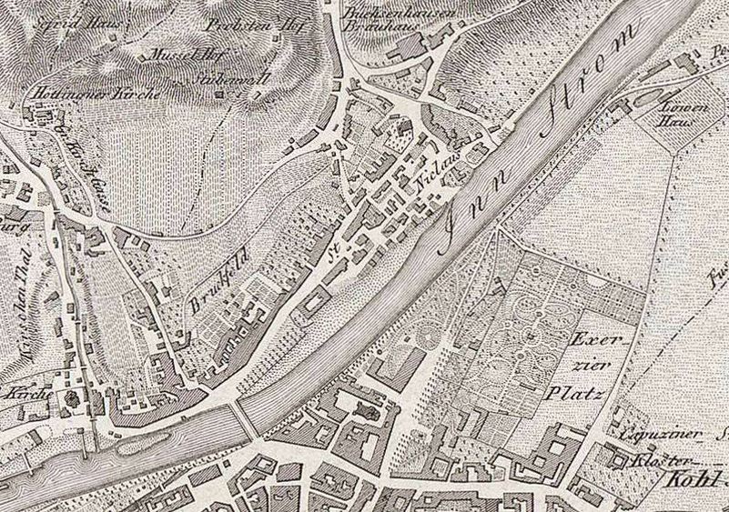 Map of Imperial and Royal Provincial Capital Innsbruck and surroundings: detail map – St. Nikolaus